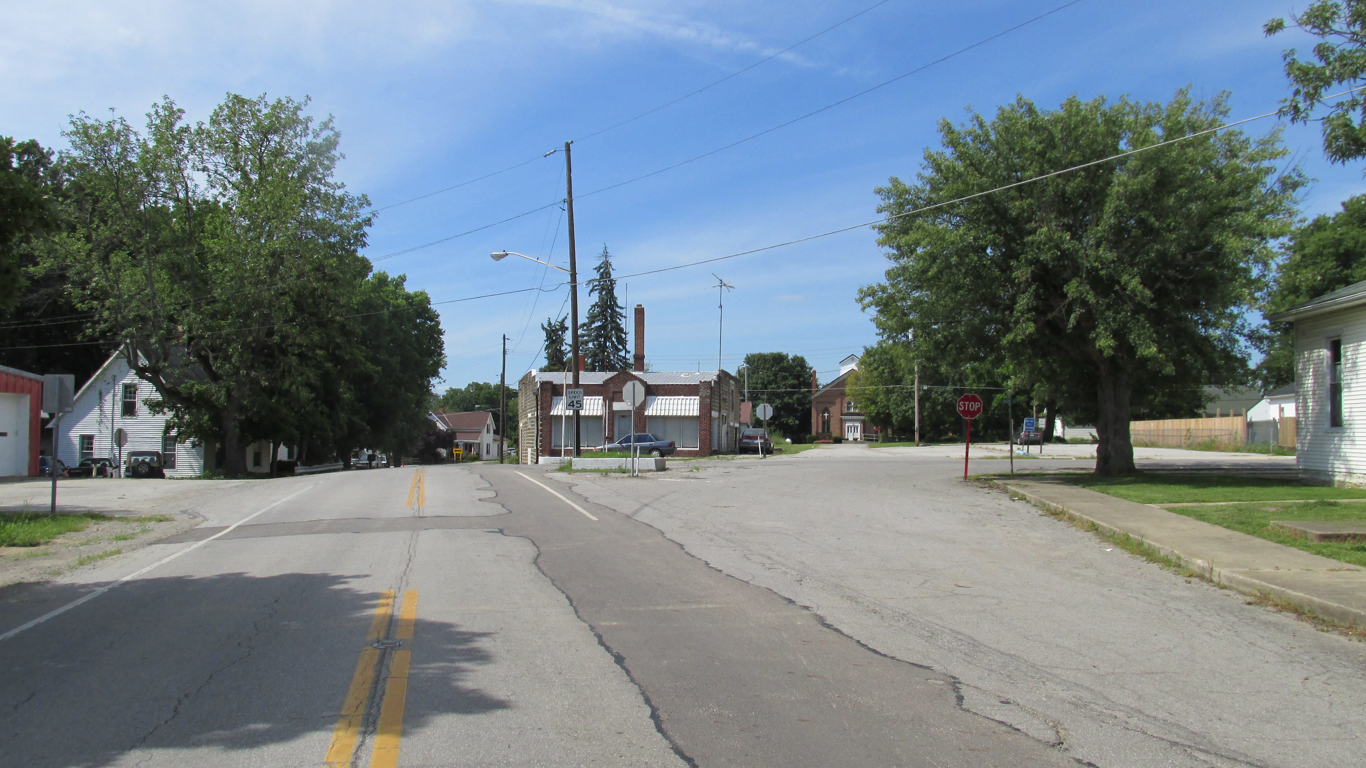 Looking north on Ohio Highway 753 in Good Hope.